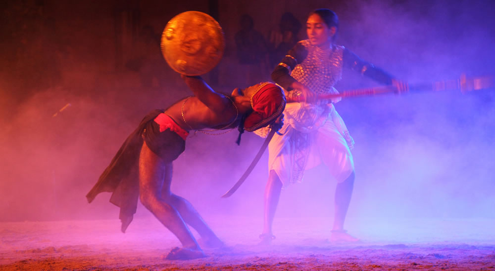 female fighter using illangam techniques to combat with male fighter